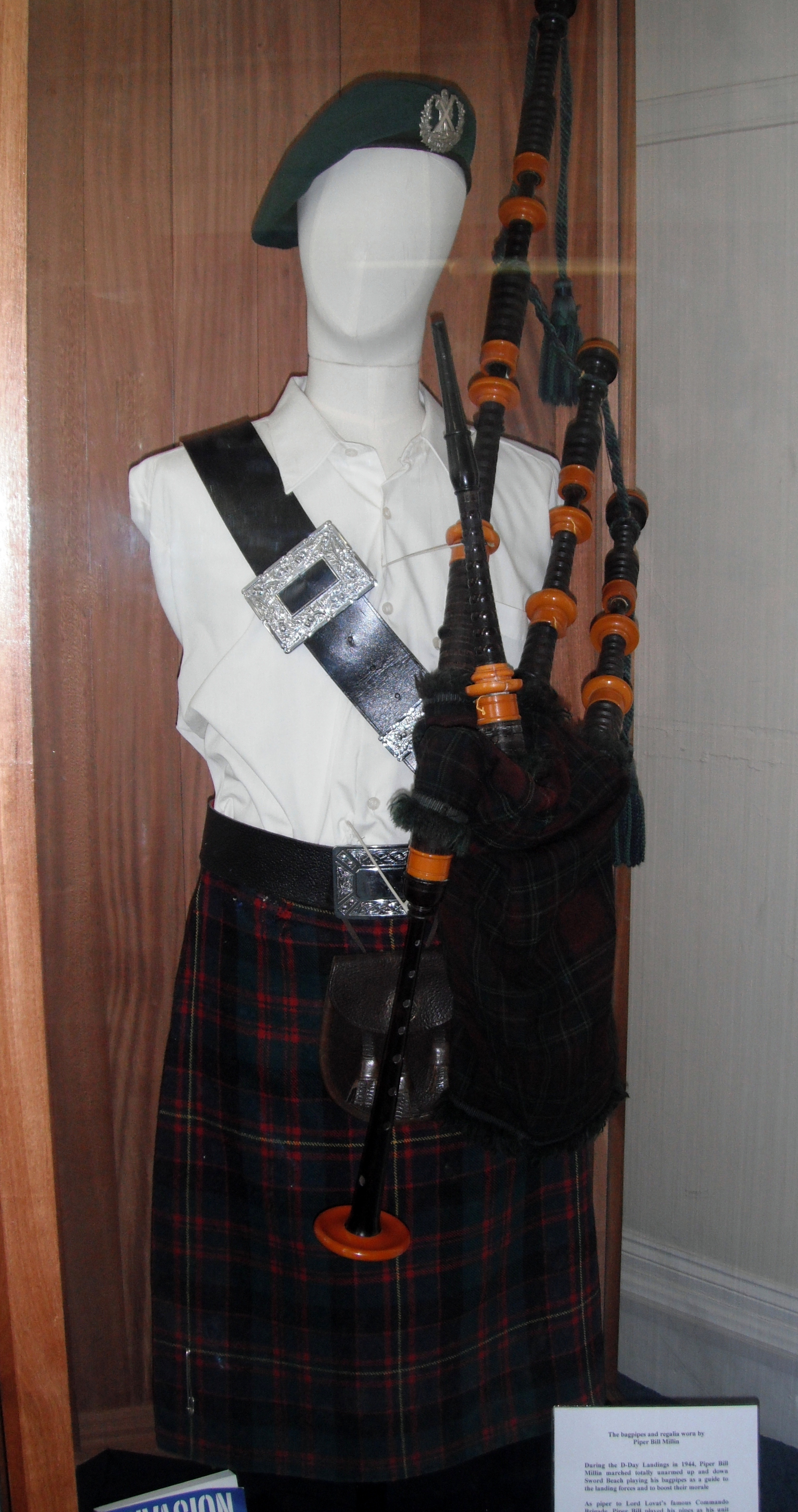 Piper Bill Millins D-Day bagpipes that were played on Sword Beach, on display at Dawlish Museum,Devon. Along with his beret,kilt (his fathers from The Great War) and Dirk.